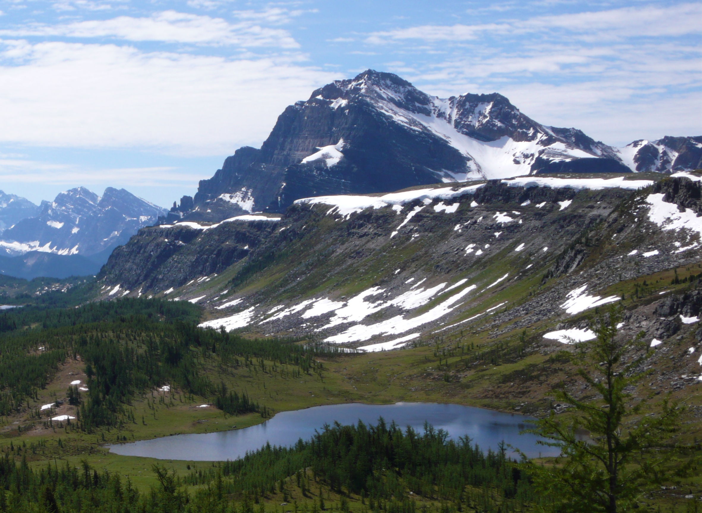 The Monarch, a mountain of the Canadian Rockies